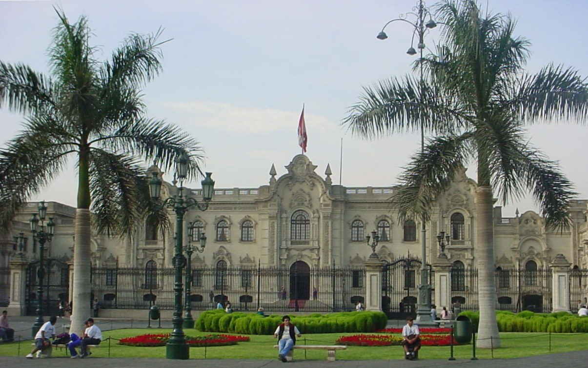 Despite the name, successive construction and demolition means that no siginificant portion of Francisco Pizarro's original palace remains.